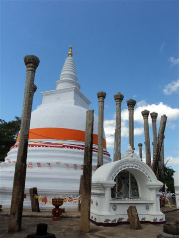 Theparama Dagaba in Anudradhapura, Sri Lanka